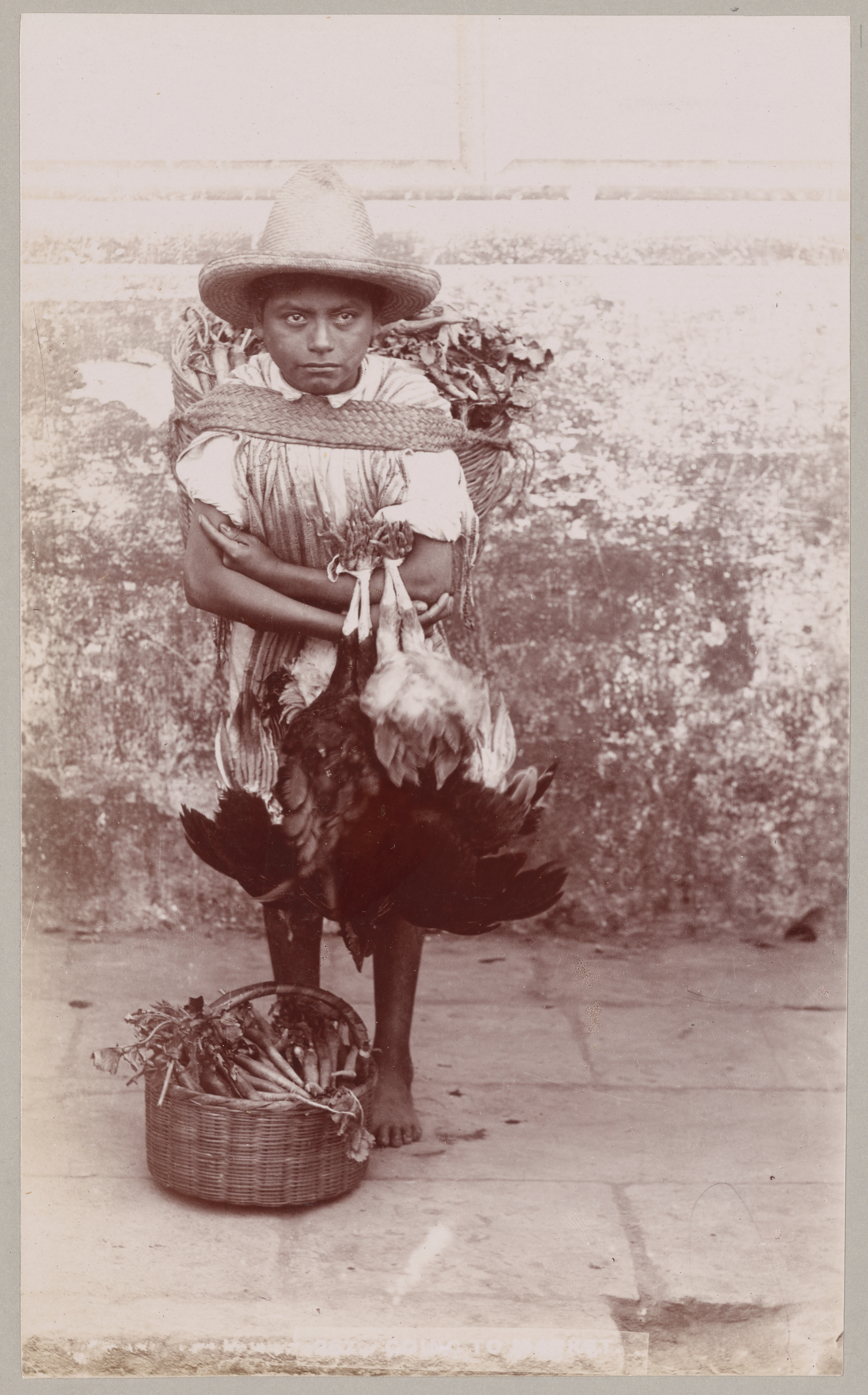 NYPL catalog ID (B-number): b14120225 TMS ID: 110332 TMS Object Number: MFY 96-4194, Plate 164 NYPL Exhibition ID: TL 16.15.012a Universal Unique Identifier (UUID): b9f90cf0-8360-0134-db0f-00505686a51c